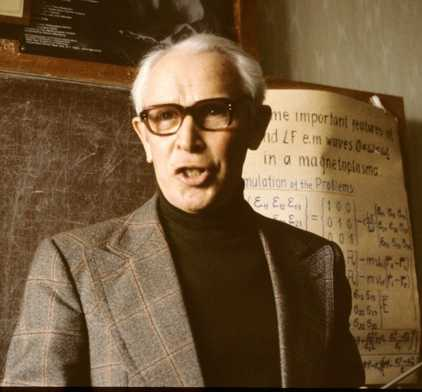 This portrait of Yakov Alpert giving a lecture was taken in 1980 in the former Soviet Union.